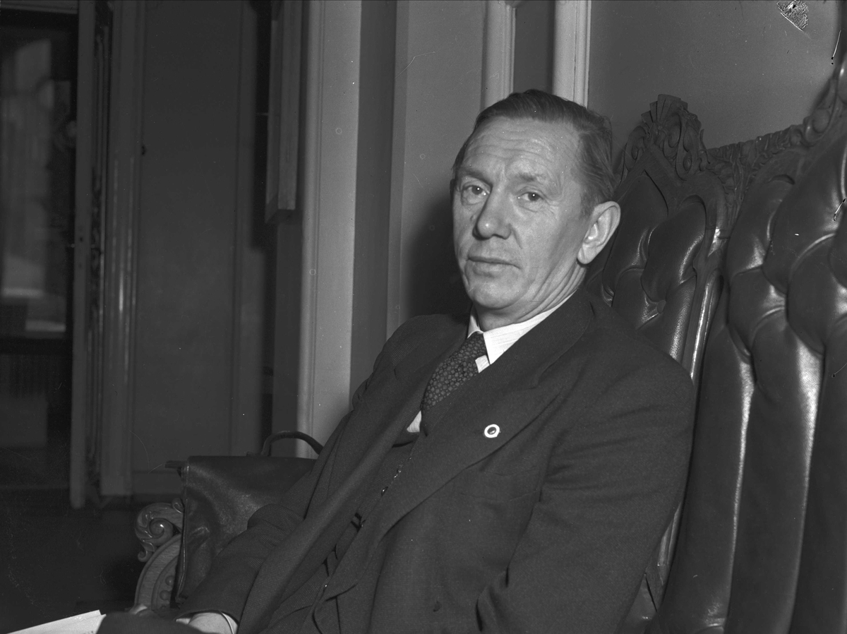 Oscar Torp (1893–1958), Norwegian politician (Labour Party). Prime Minister of Norway 1951-1955. Photo by Leif Ørnelund in the collections of Oslo Museum via DigitaltMuseum.